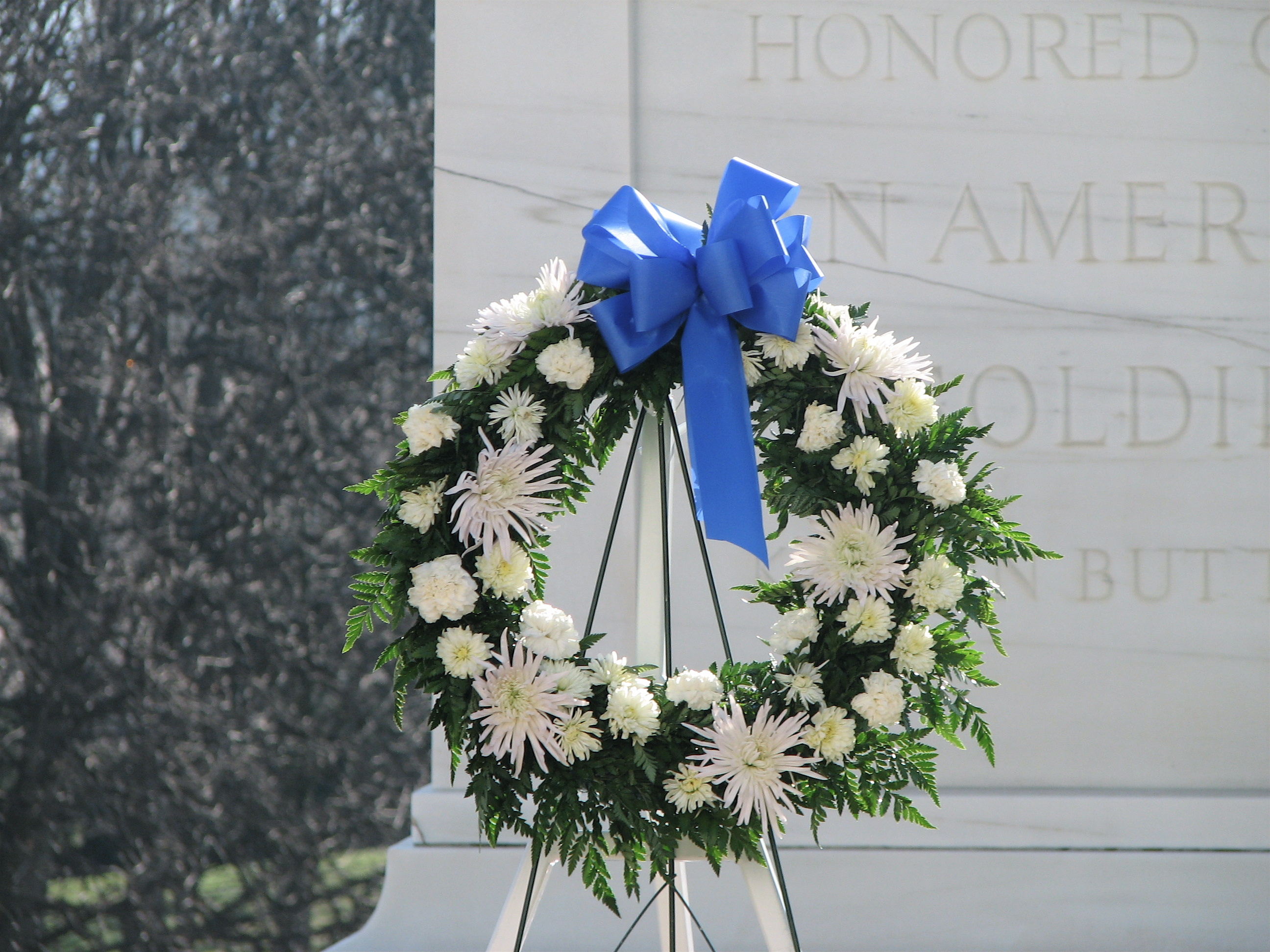 A reath-ceremony at the Tomb of the Unknowns in Virgina.